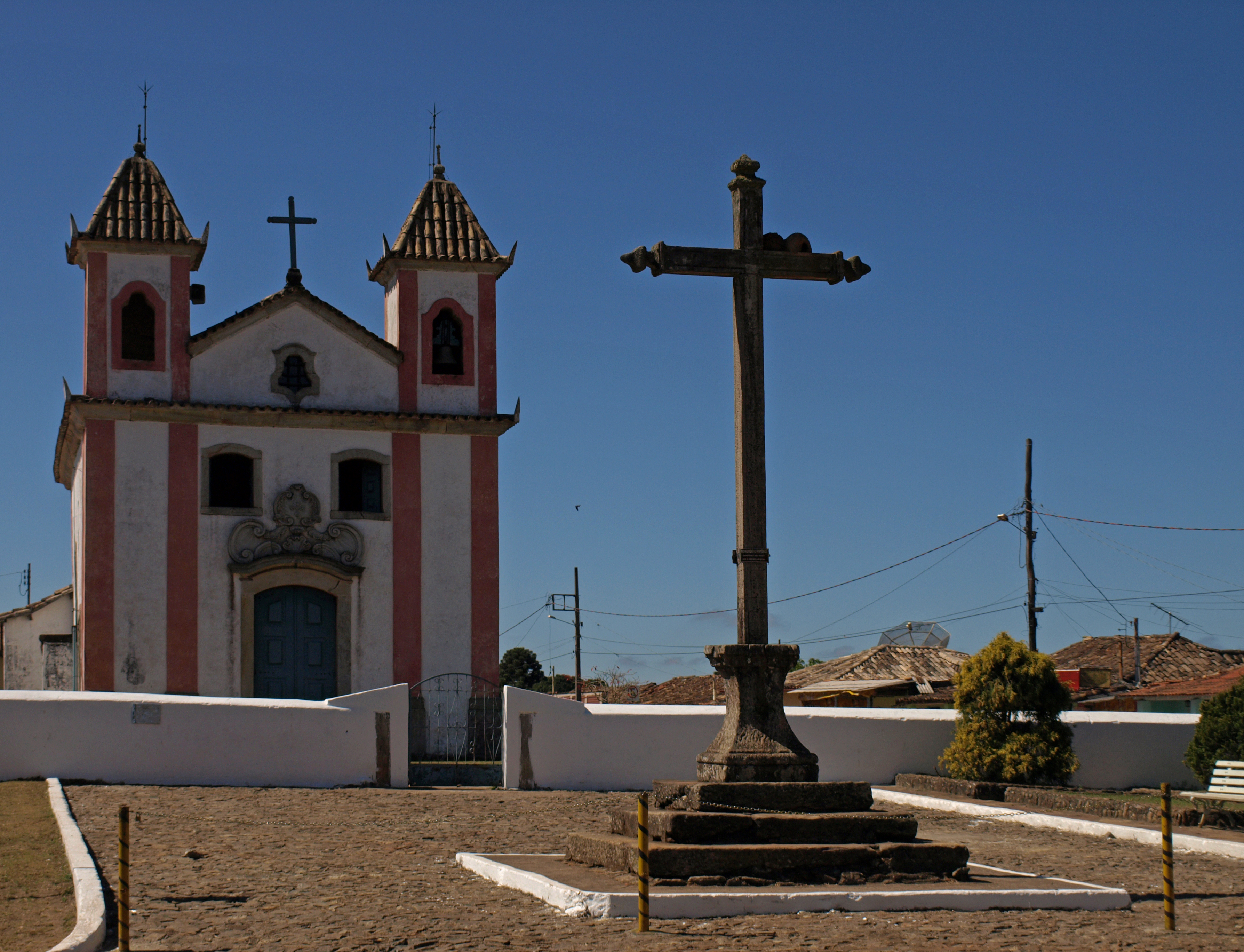 Igreja Nossa Senhora dos Prazeres (1740), Lavras Novas, Brazil